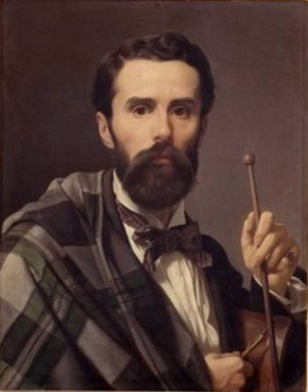 Self-portrait of Luigi Mussini (1813-1888), Italian painter from Siena